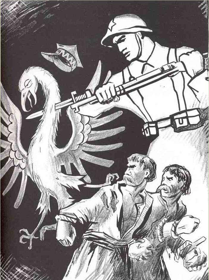 Soviet propaganda poster depicting the Red Army killing the Polish eagle which had supposedly oppressed the Belarusians and Ukrainian peasants under Polish rule.